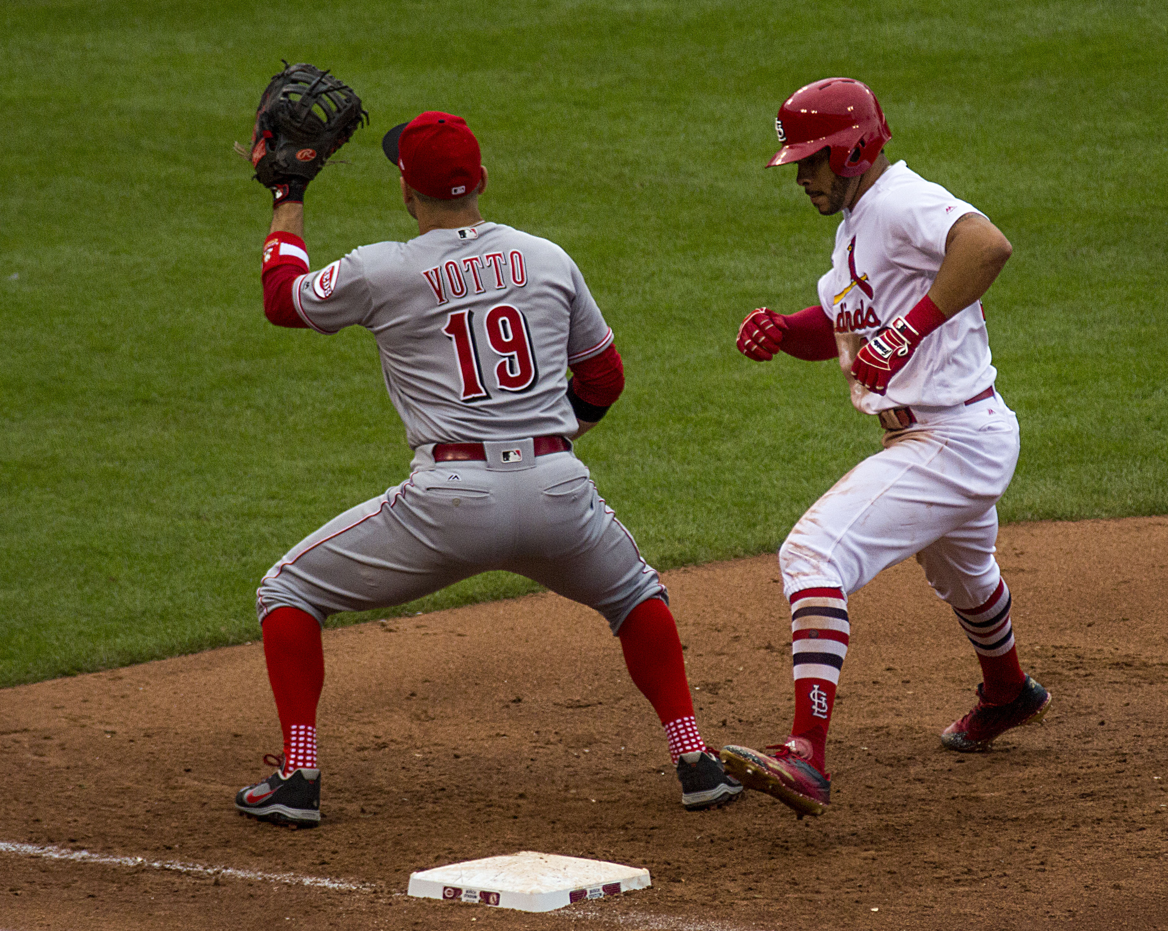 Tommy Pham of the Cardinals and Joey Votto of the Reds, June 26, 2017